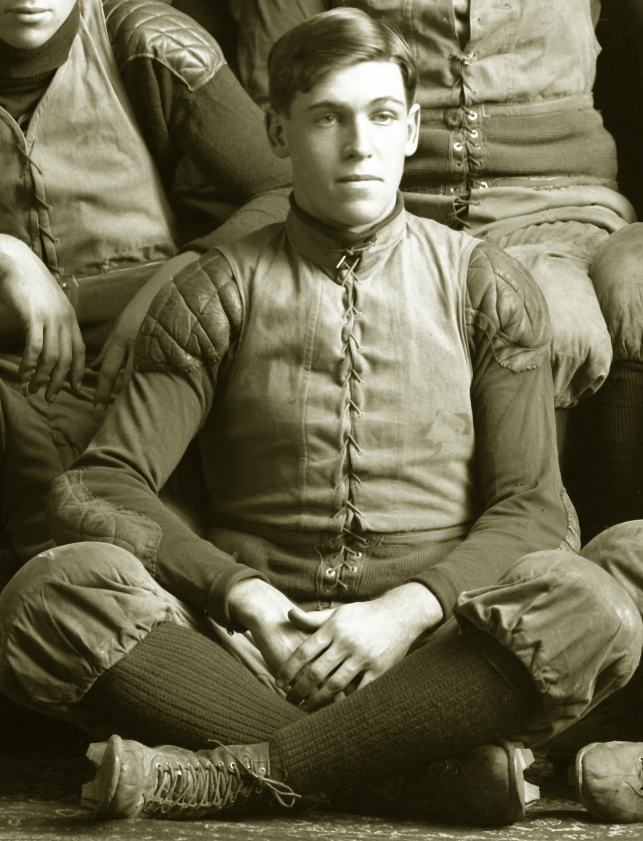 Photograph of Theodore M. Stuart